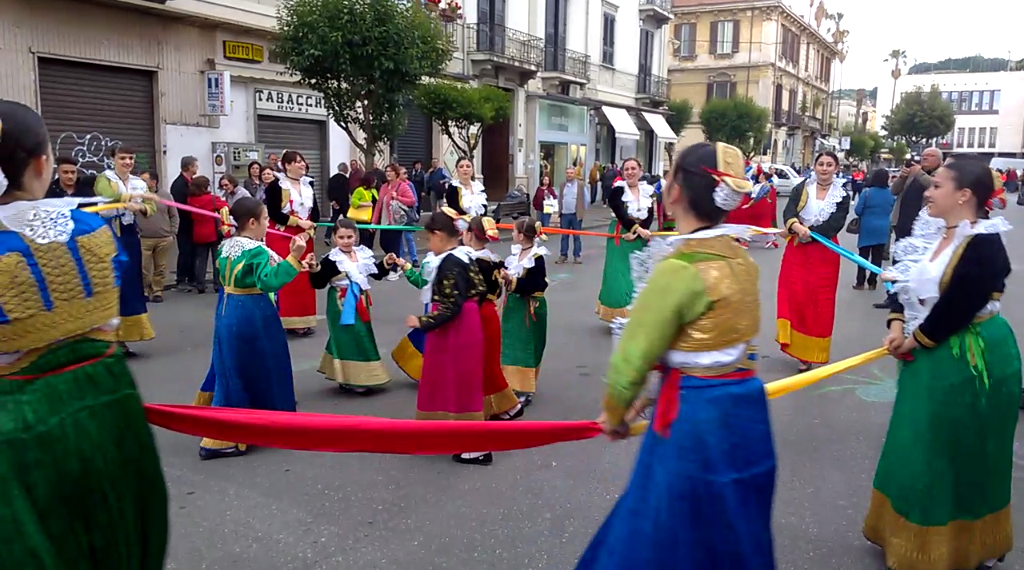 Arbëreshë costume from Santa Sofia d'Epiro, Calabria during the Bukuria Arbëreshë in Cosenza, Calabria 2017